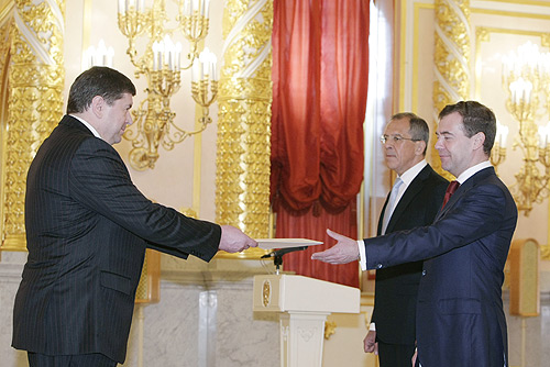 THE KREMLIN, MOSCOW. Presentation by foreign ambassadors of their letters of credence. Ambassador of the Republic of Moldova Andrei Neguta presents his letter of credence to the President of Russia.